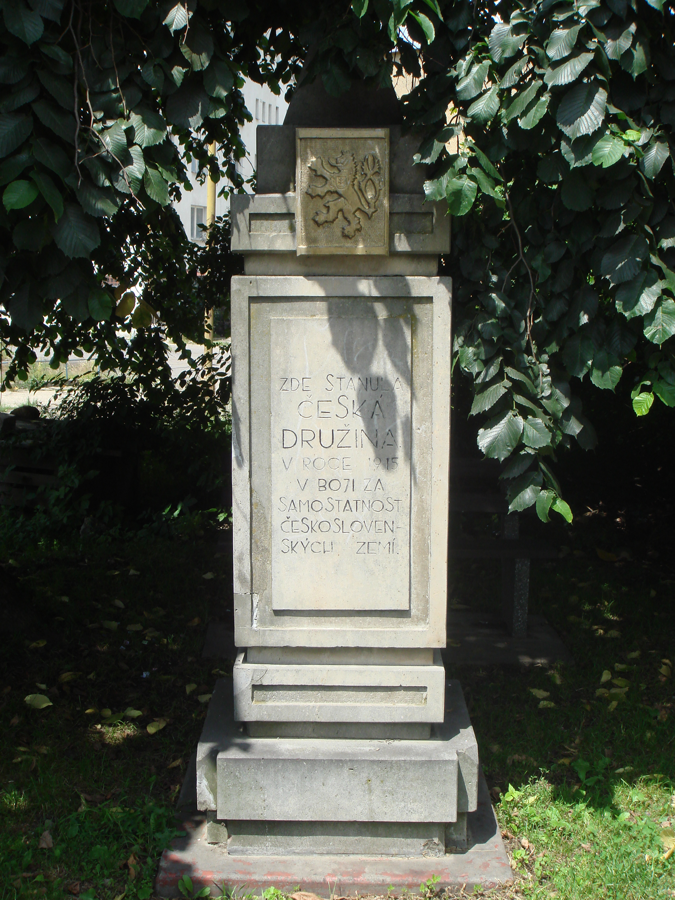 Monument commemorating the Česká družina (Czech Suite) in Medzilaborce (Prešov Region, Slovakia).